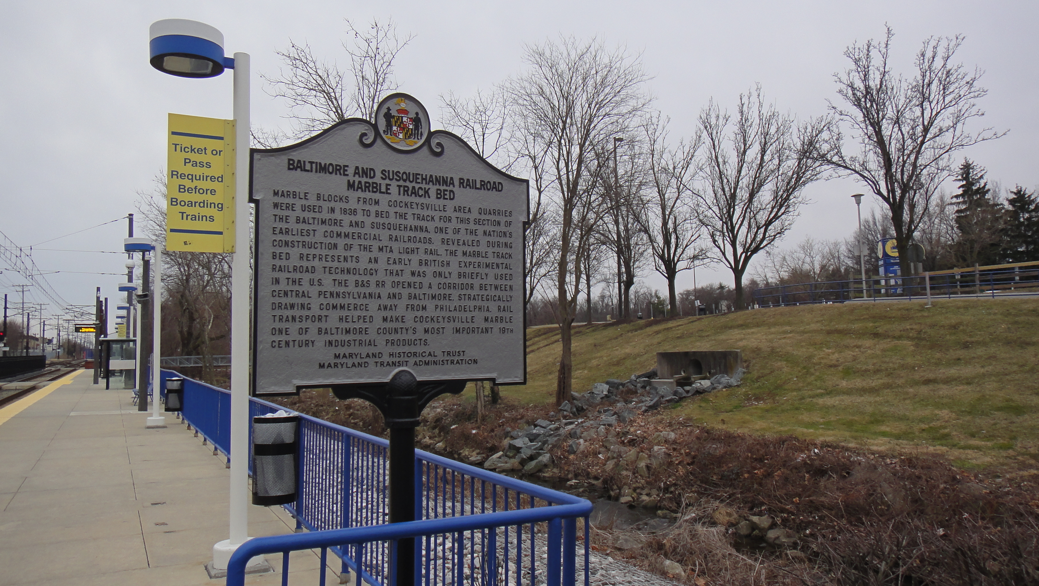 B&S historic marker at Timonium station